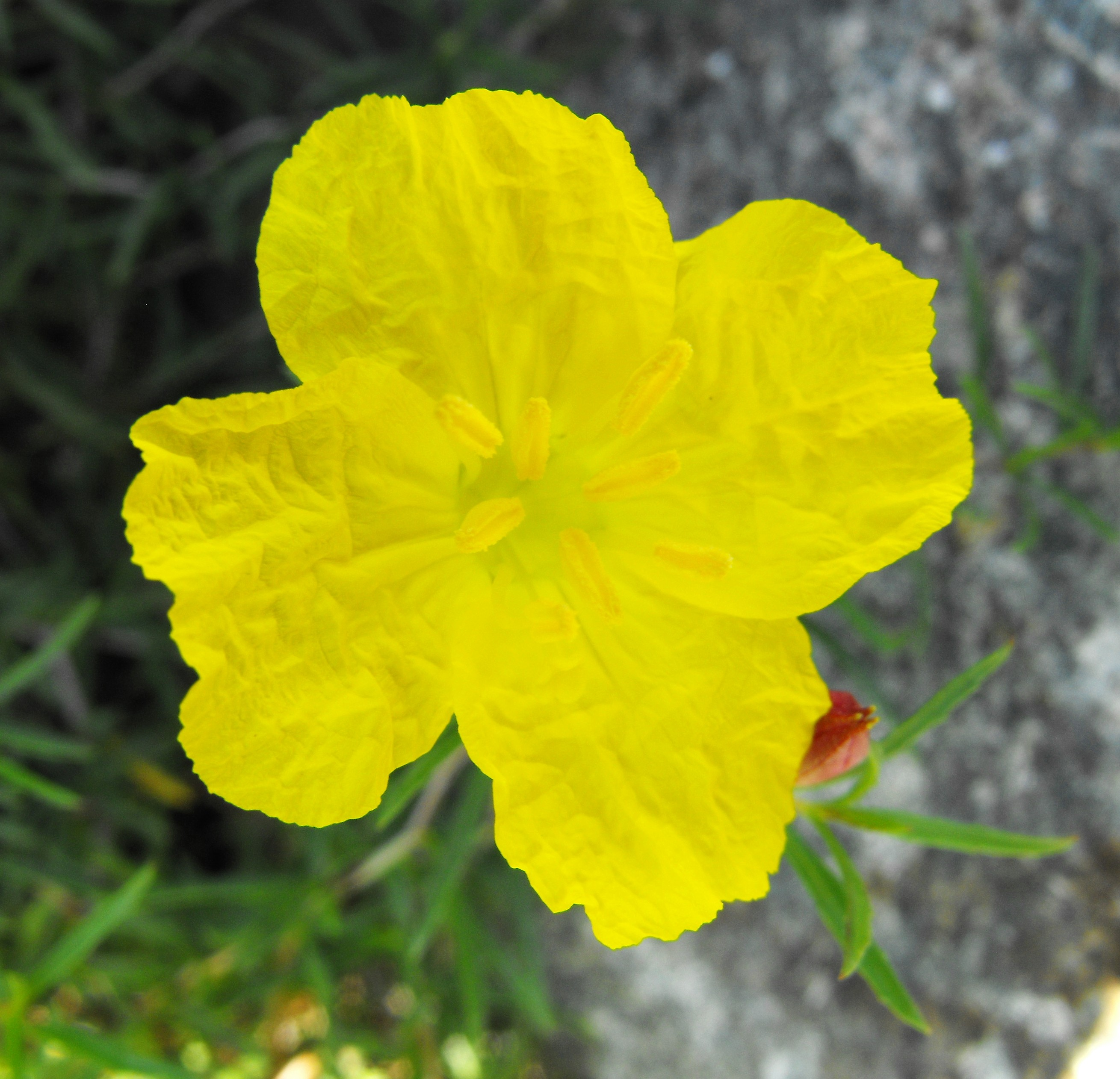 Calylophus berlandieri ssp. pinifolius syn. Calylophus drummondianus syn. Calylophus drummondii in the Water Conservation Garden at Cuyamaca College, El Cajon, California, USA. Identified by sign as the third name.